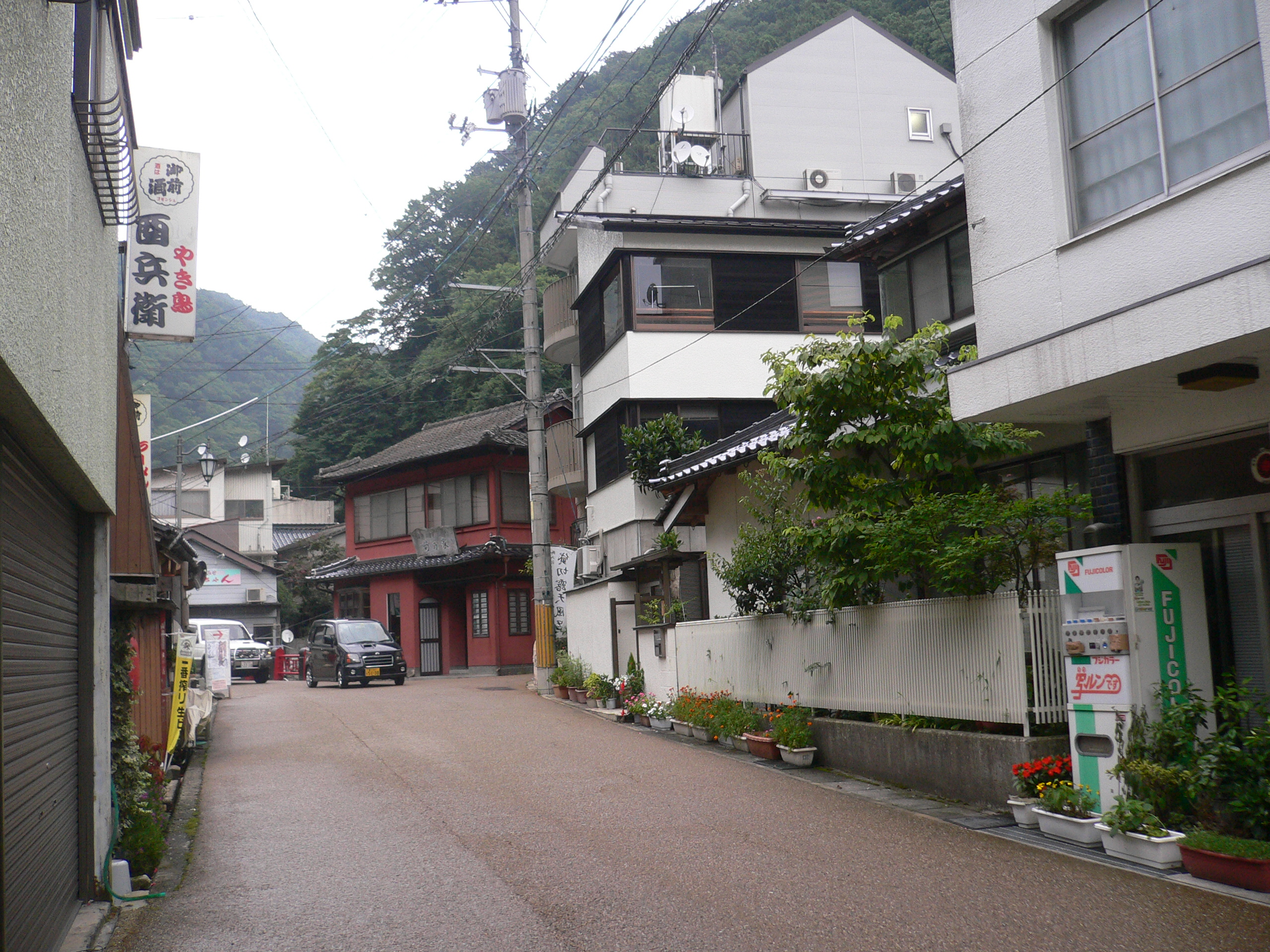 Yubara Spa Town in Maniwa, Okayama, Japan.